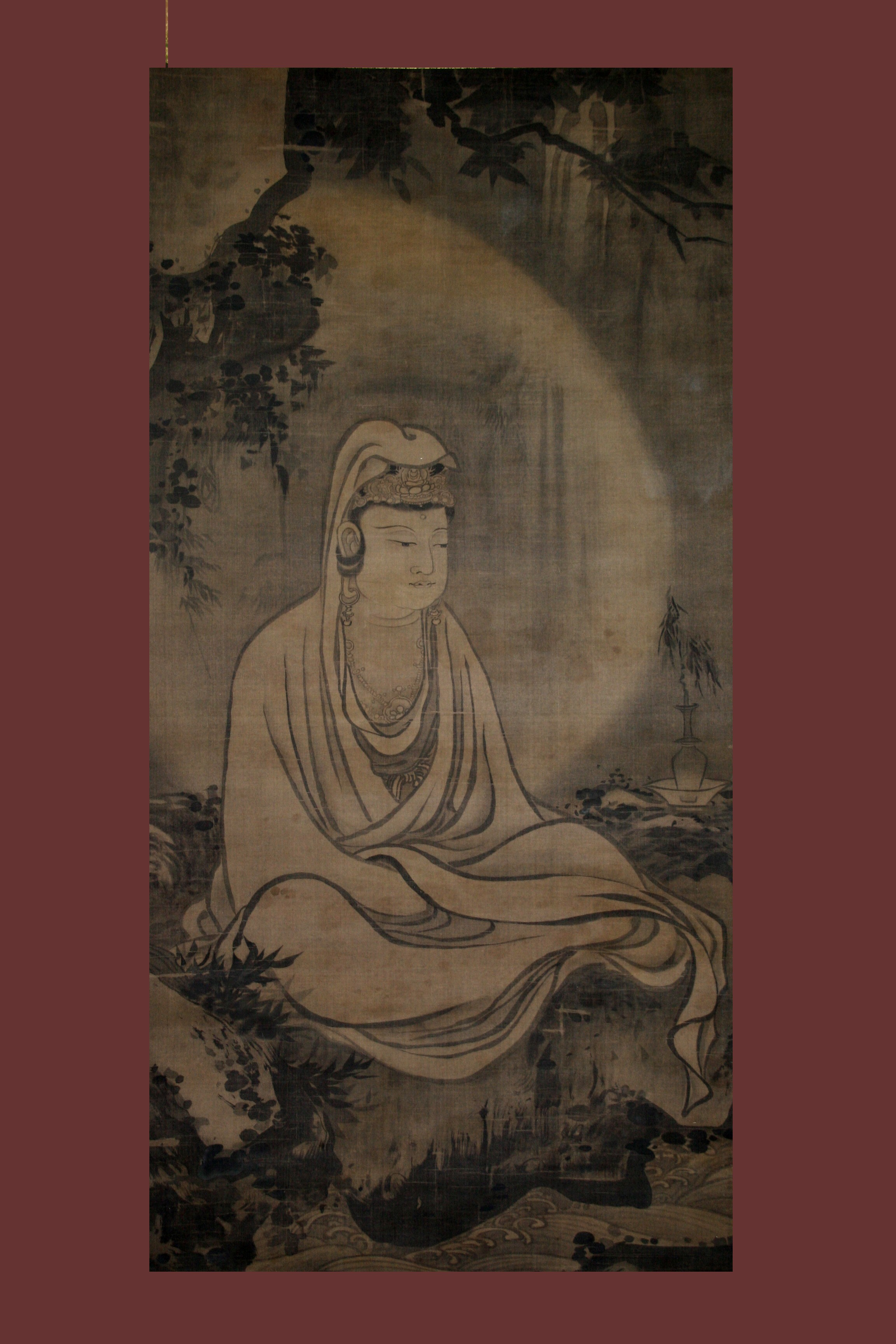 Guan Yin in white robe, by Mu-ch'i (early Ming copy, preserved at Daitokuji temple in Kyoto, Japan)